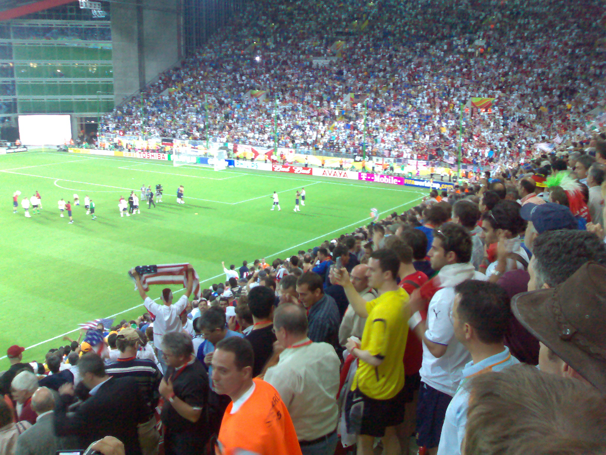 1:1 final US v Italy, the team applauds the huge US crowd